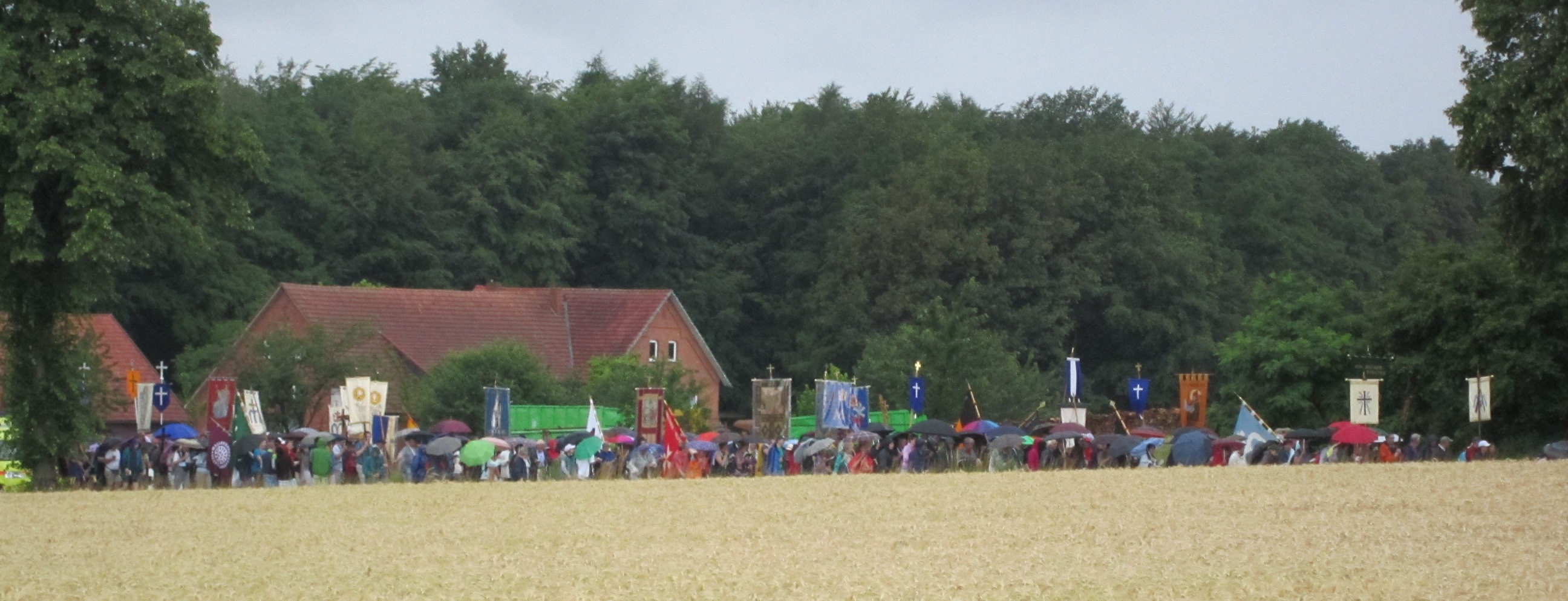 Pilgrims on their way home from Telgte to Osnabrück near Bad Iburg